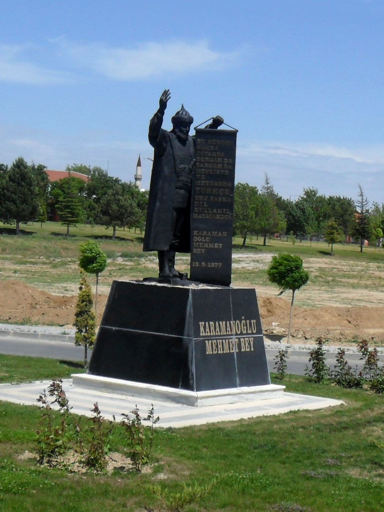 Mehmet I of Karaman